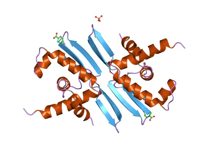 Cartoon representation of the molecular structure of protein registered with 1hkq code.